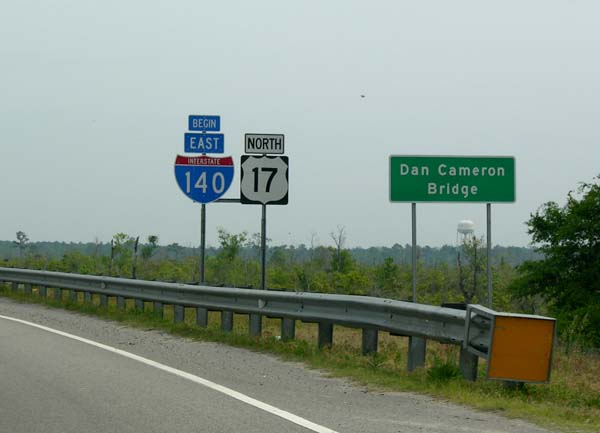 Interstate 140 temporary western beginning at the Dan Cameron Bridge in Wilmington, North Carolina.